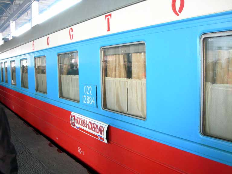 A sleeping car used for Moscow-Pyongyang International Train (Russian car) in Pyongyang Station